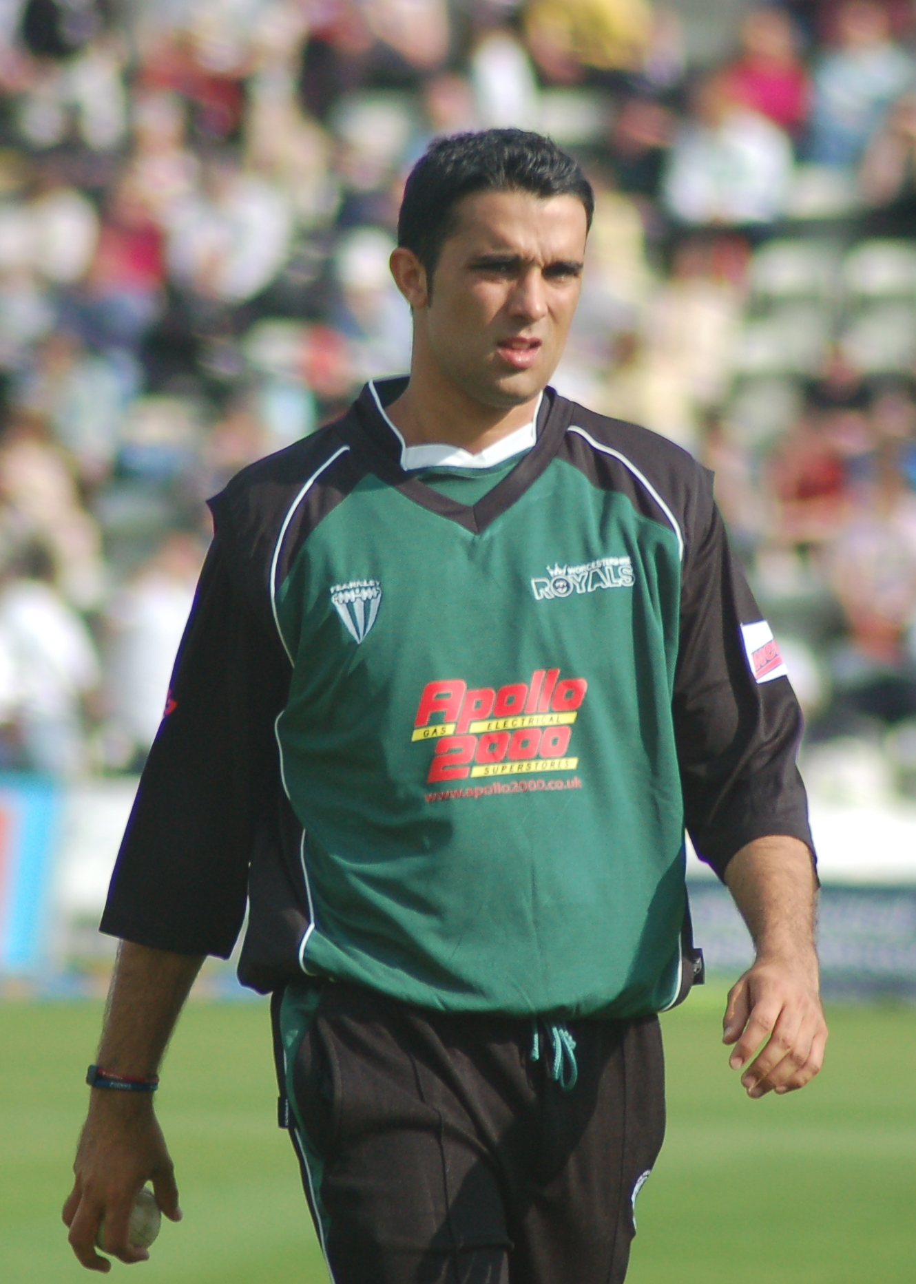 Kabir Ali of Worcestershire Royals during the Twenty20 match against Gloucestershire Gladiators June 12th 2008